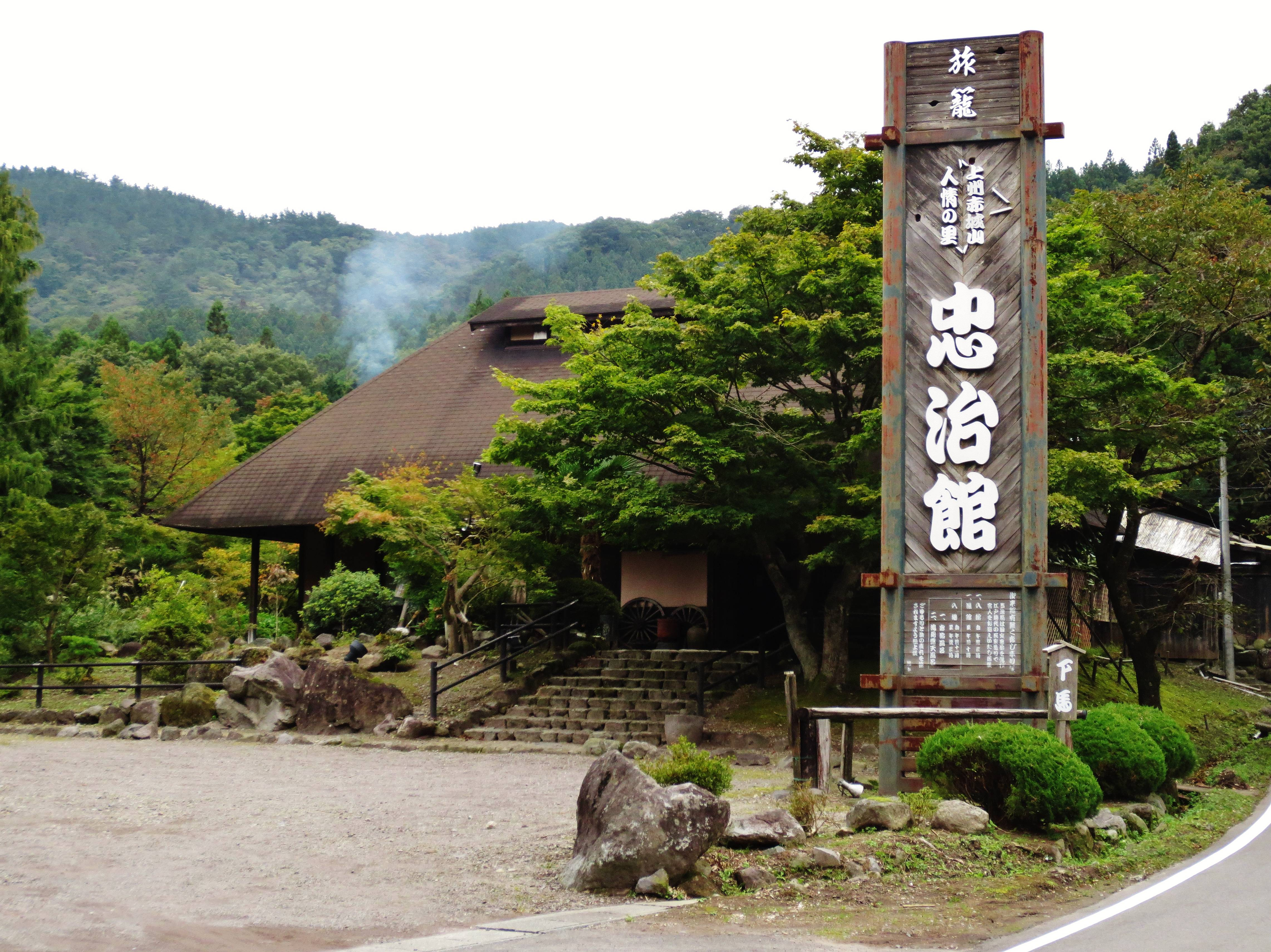 Akagi Onsenkyō Chūji Onsen.